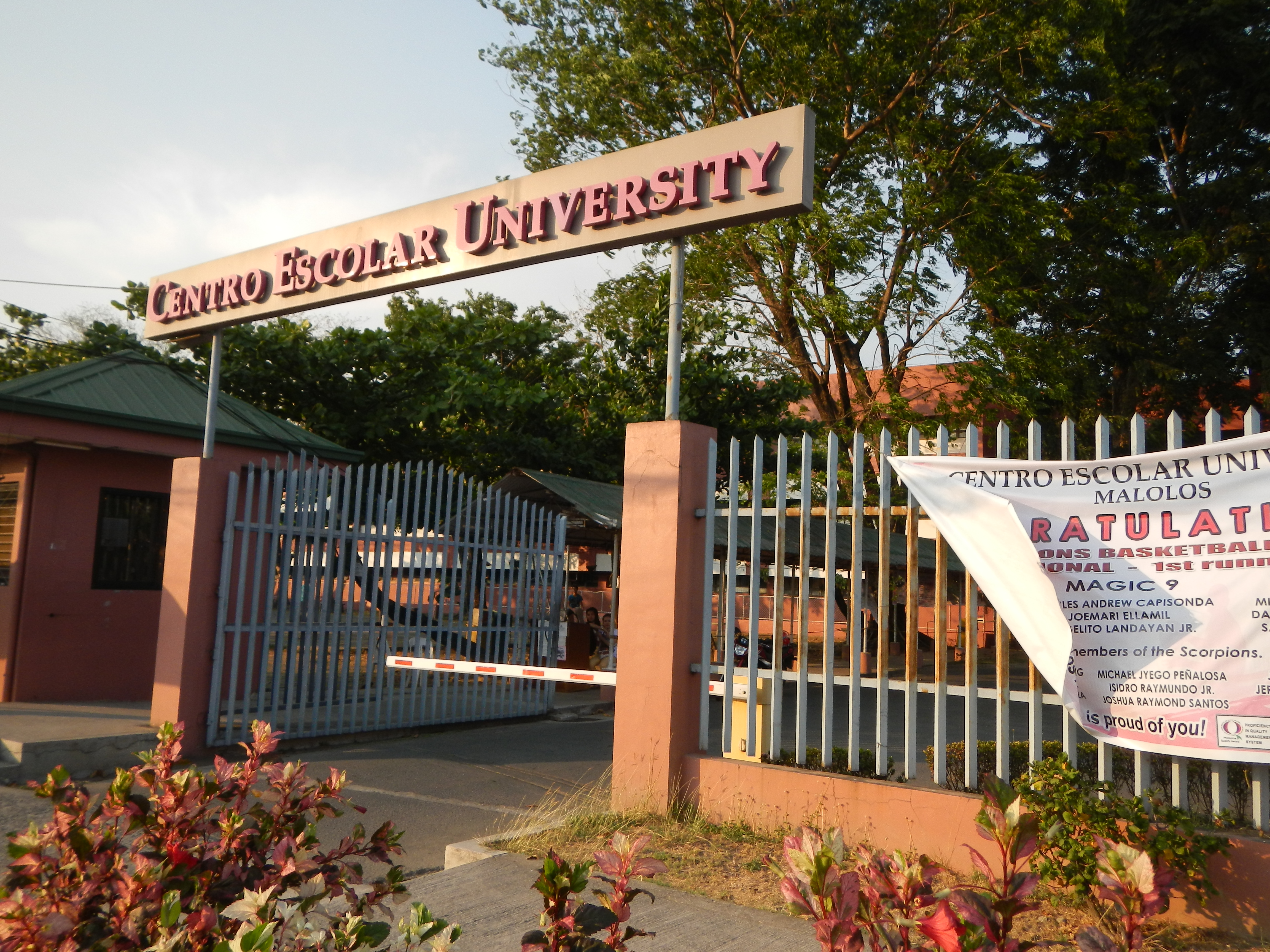 Centro Escolar University - Malolos Campus is located on a 7-hectare property along MacArthur Highway Centro Escolar University, in Barangay Longos, Malolos City.